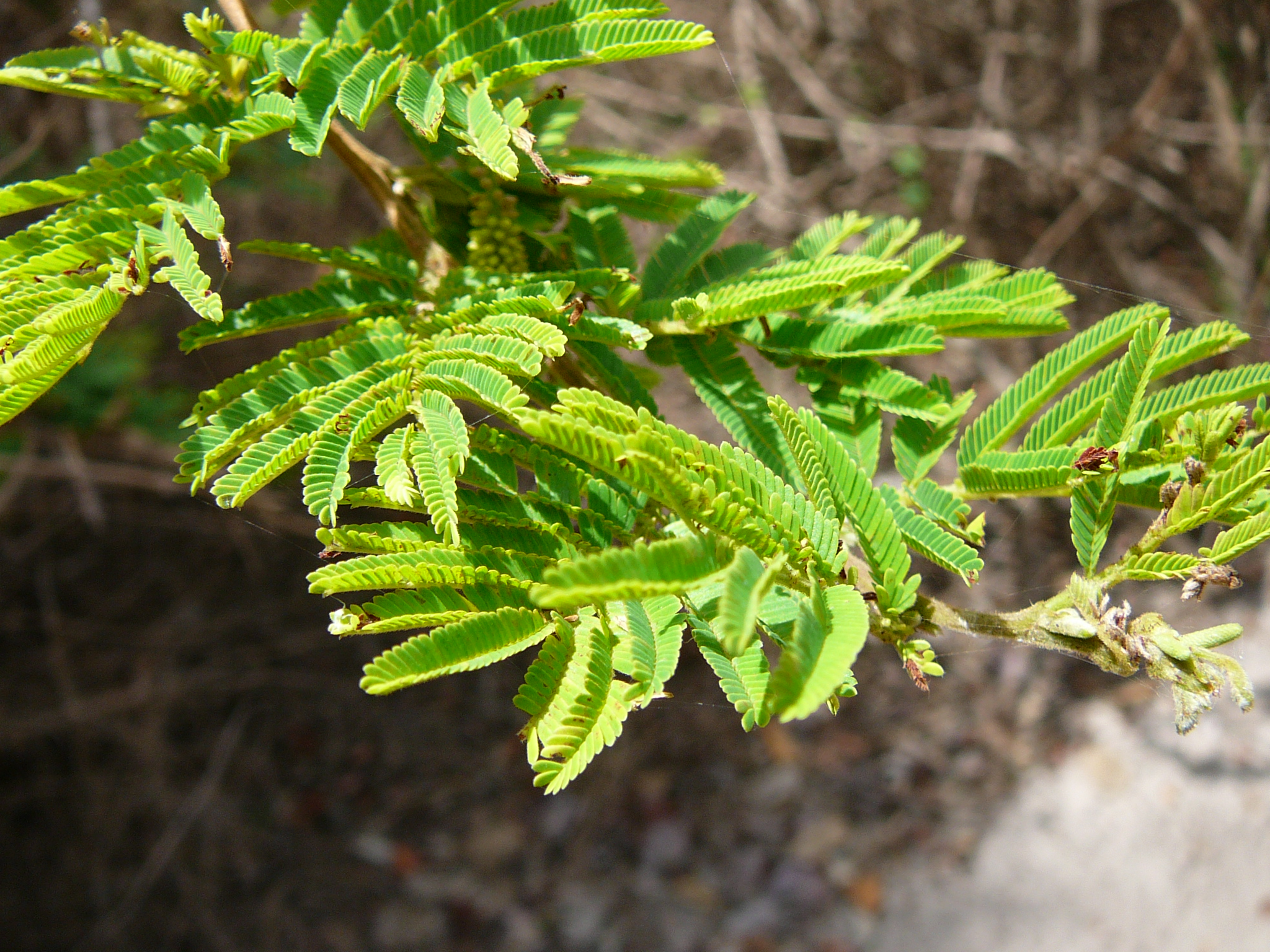 Bell-flowered Mimosa